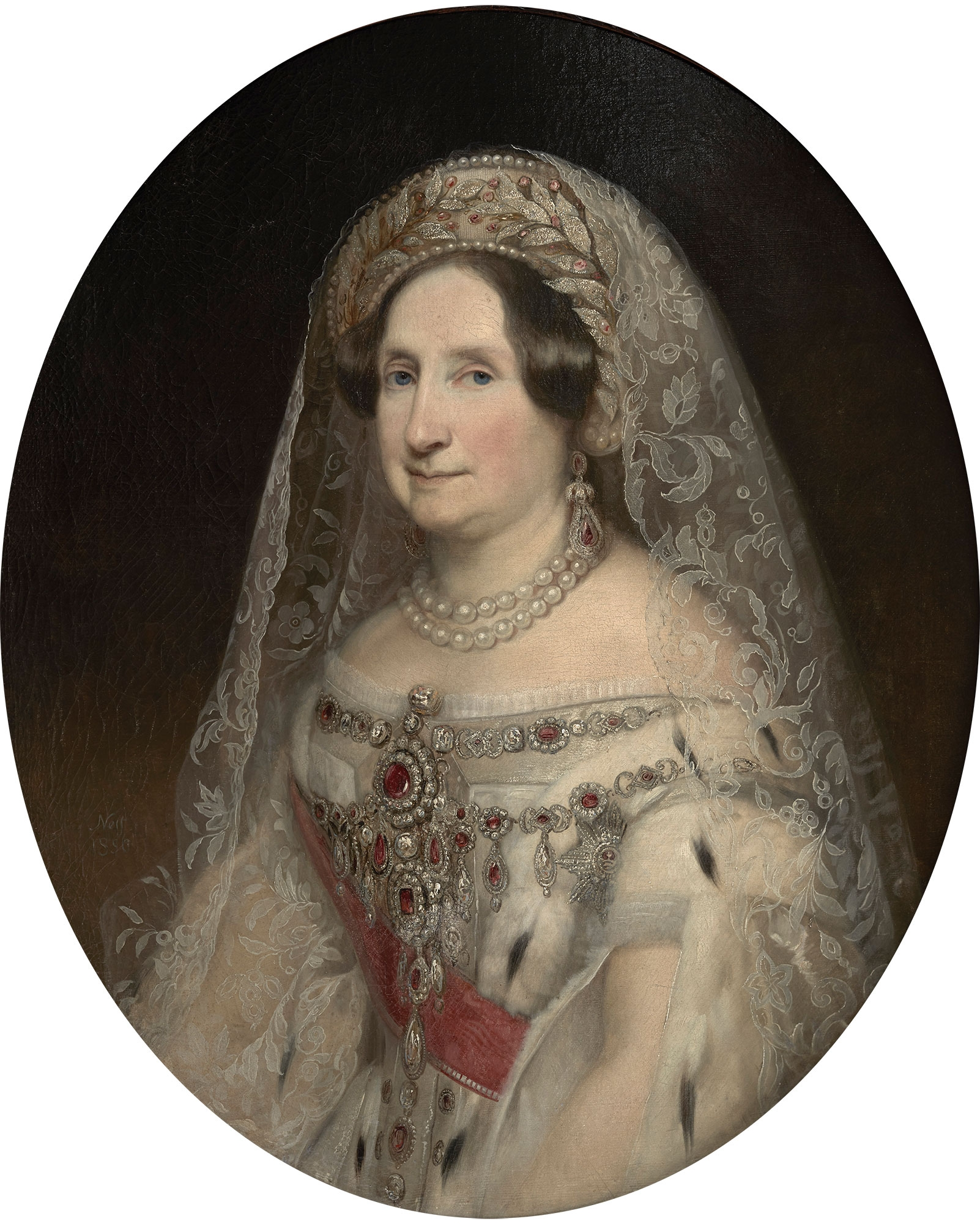 Portrait of Anna Pavlovna (1795 — 1865), Dutch queen